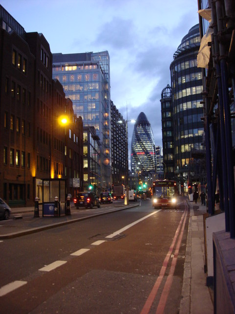 A10 Bishopsgate